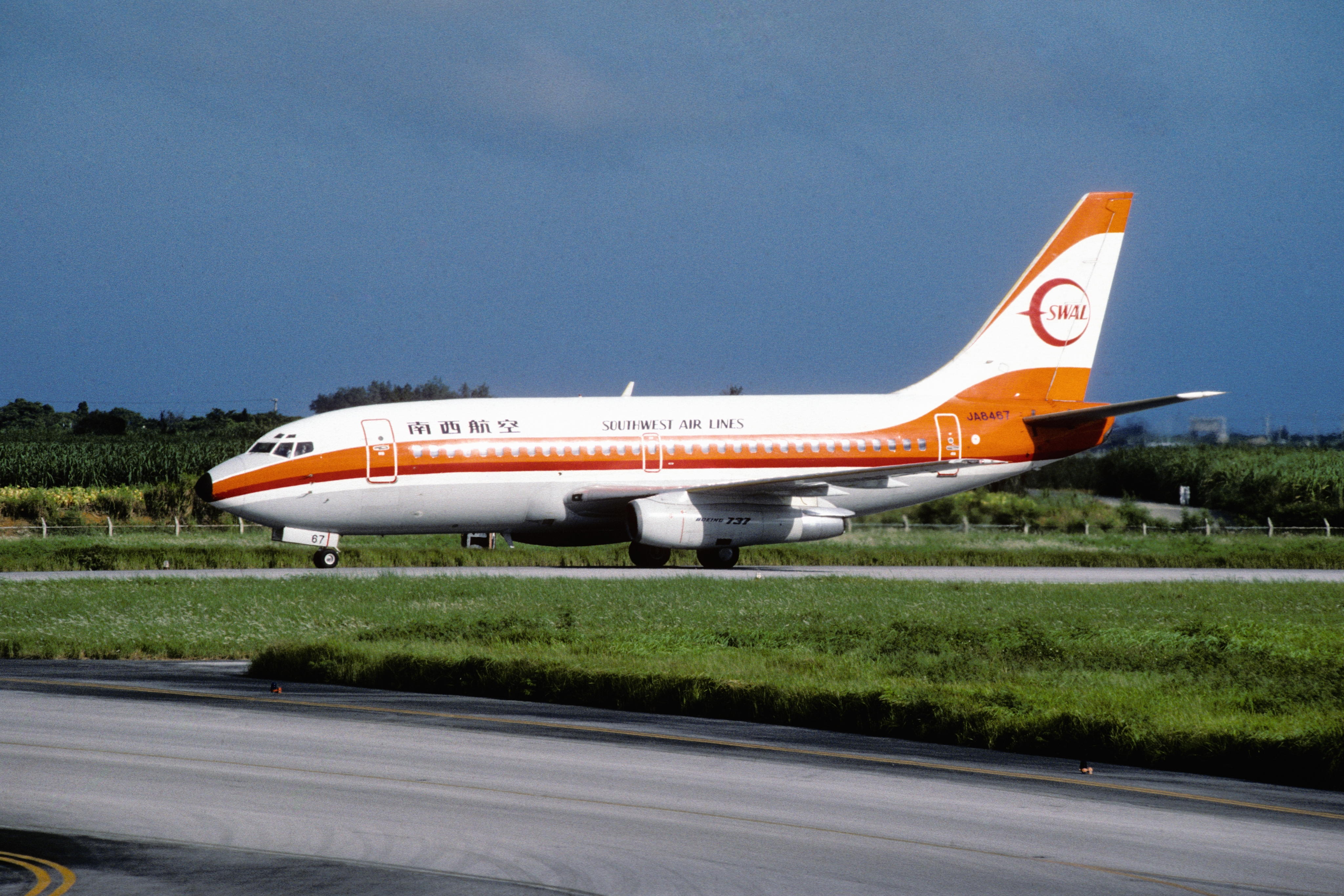 Old Pictures